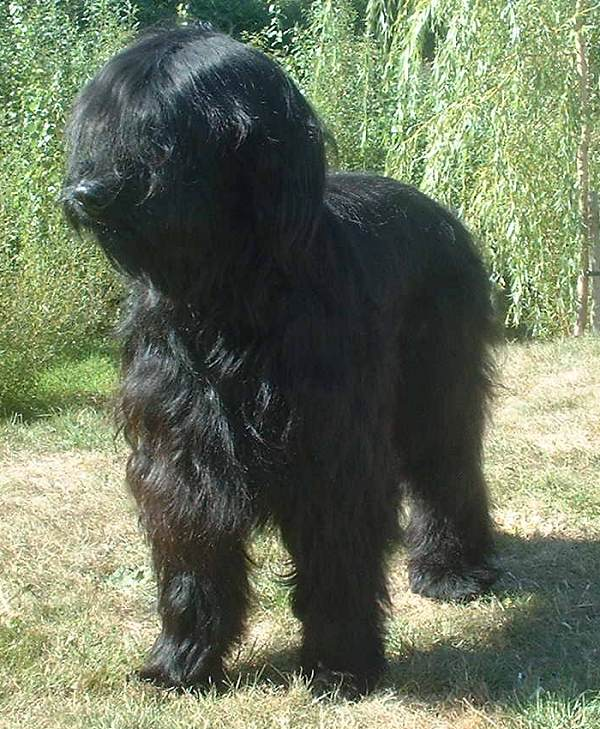 Briard at the City of Birmingham Championship Dog Show 2003. Tesawin Saphire Keisha owned by Mrs T. Sweet.